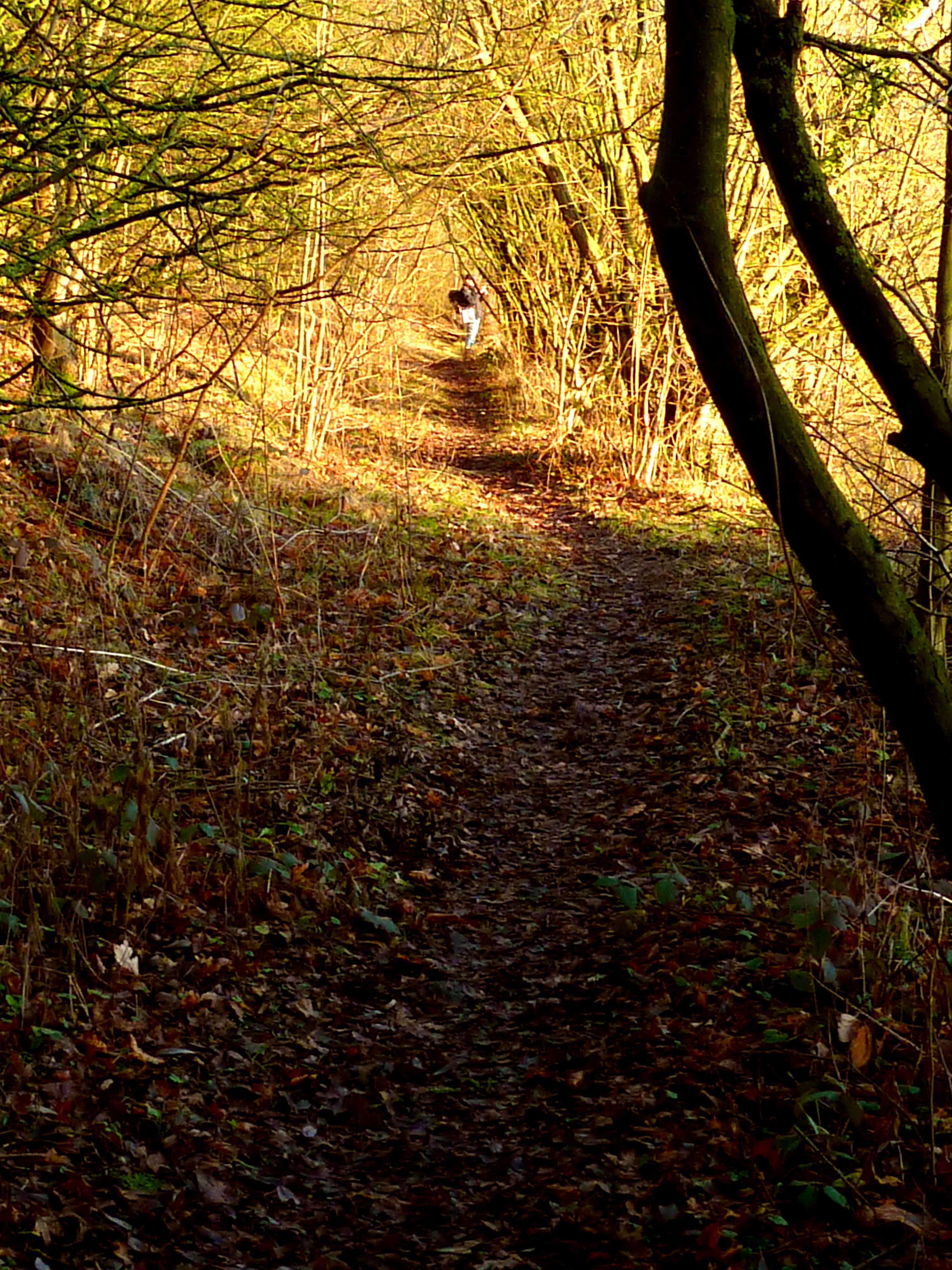 Hay-a-Park nature reserve, adjacent to the east side of Knaresborough, North Yorkshire, England. This area has been designated a Site of Special Scientific Interest (SSSI. The site has no main entrance, no visitor facilities and no car park. It has a large lake with a few smaller lakes at the south end of the site, some woodland, and some fields maintained by grazing. Showing the area around the large lake.